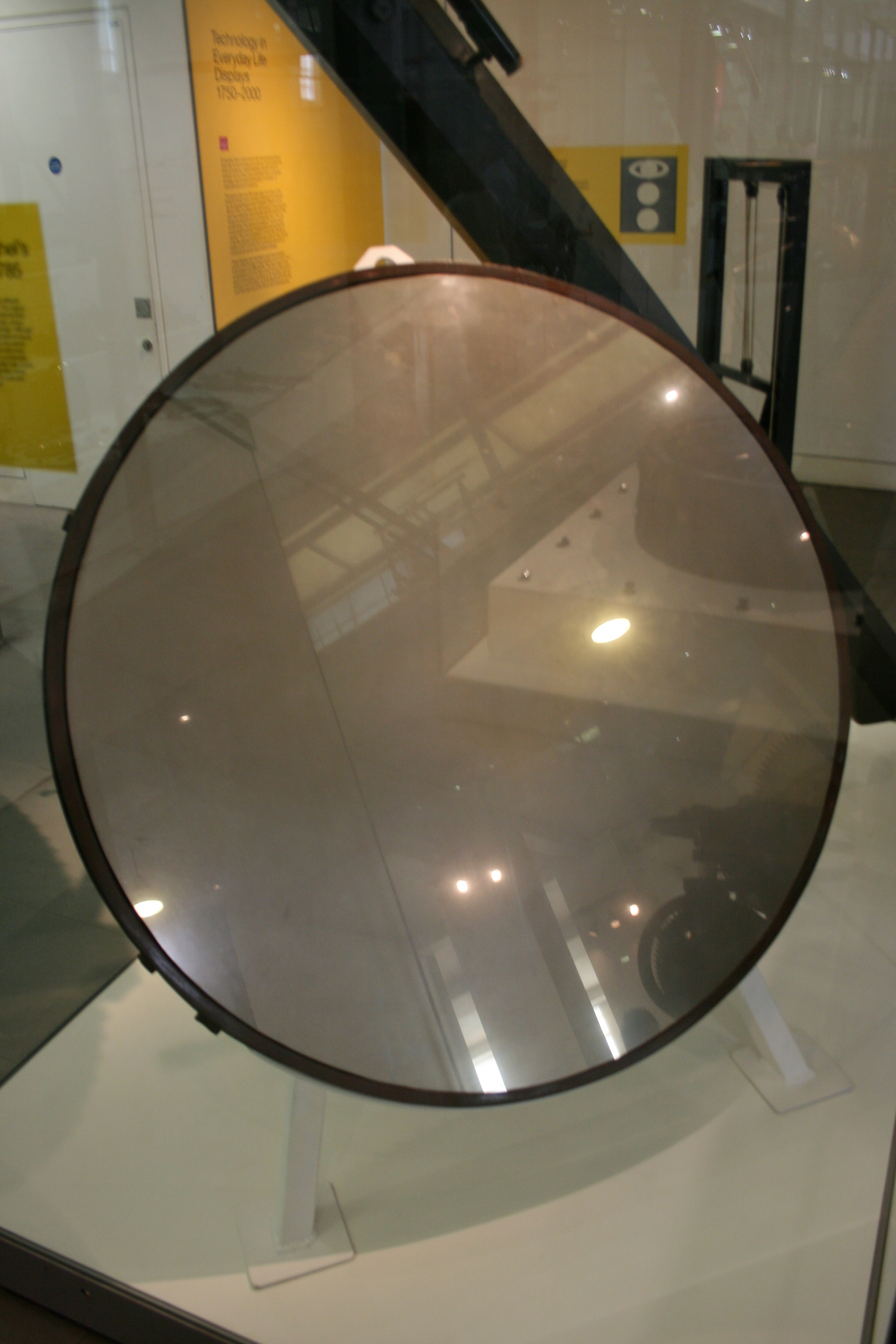 Original Mirror for William Herschel's Forty-Foot Telescope, c. 1785, on display in the Science Museum, London.